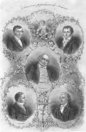 Portraits of French songwriters. Centre: Pierre-Jean de Béranger. Top left: Théophile Marion Dumersan. Bottom left: Nicolas Brazier. Bottom right: Charles-Simon Favart.